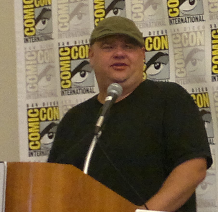 Paul Schrier at Comic Con in 2011